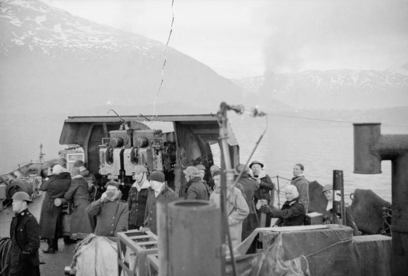 The Norwegian Campaign 1940- Naval Operations A gun's crew closed up at their action stations on board HMS CAIRO during a bombardment of Narvik, 8 June 1940.